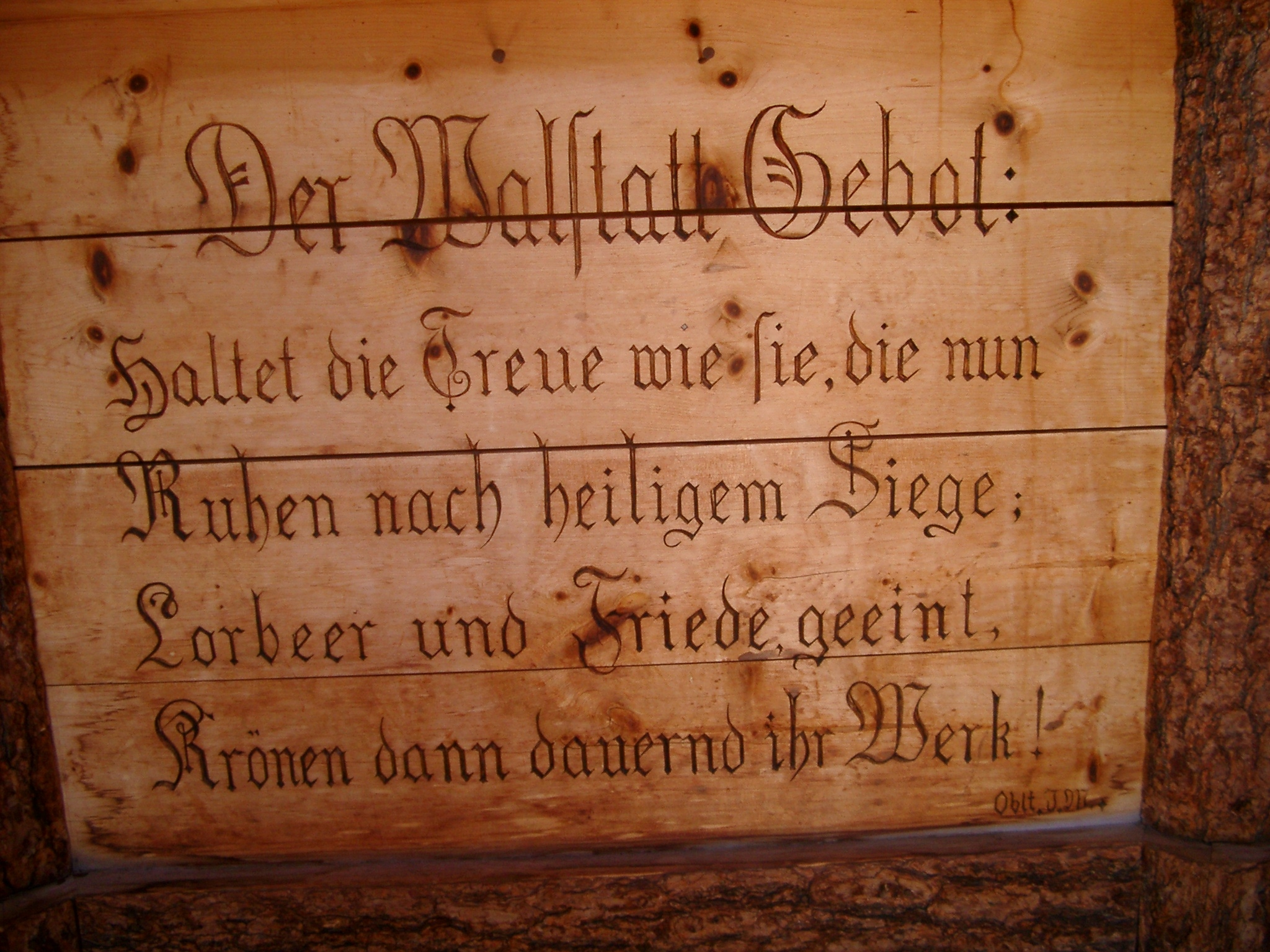 World War I Inscription in the chapel near the Scotoni hut, South Tyrol: The law of the battle field: Be faithful like them, who lie now quiet after holy victory, laurel and peace united,will then be forever the crown of their deeds.Oberstleutnant N.N.